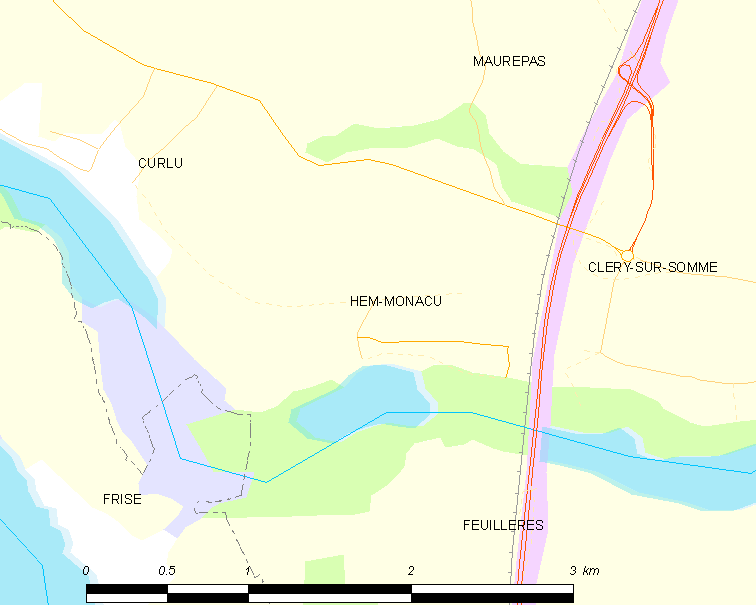 Map of French municipality Hem-Monacu